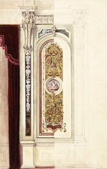 Drawing of a wall decoration by John Gregory Crace, sketched by English artist Frederick Smallfield. Now in the Victoria and Albert Museum, who describe it as "A painted arabesque design by J.C.Crace used as a wall-decoration, with decorations in composition by Messrs. Jackson & Sons of London. Drawing reproduced as Plate 141 in Volume II of The Industrial Arts of the Nineteenth Century at the Great Exhibition MDCCCLI by Sir Matthew Digby Wyatt, published by Day & Son, London, 1851-1853.".